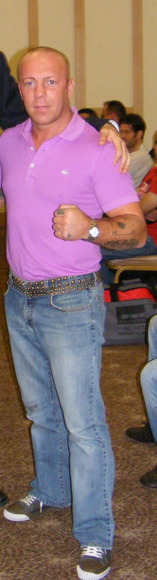 Ramon Dekkers at Press Conference of Ring Masters Olympia Event, Istanbul, Turkey.